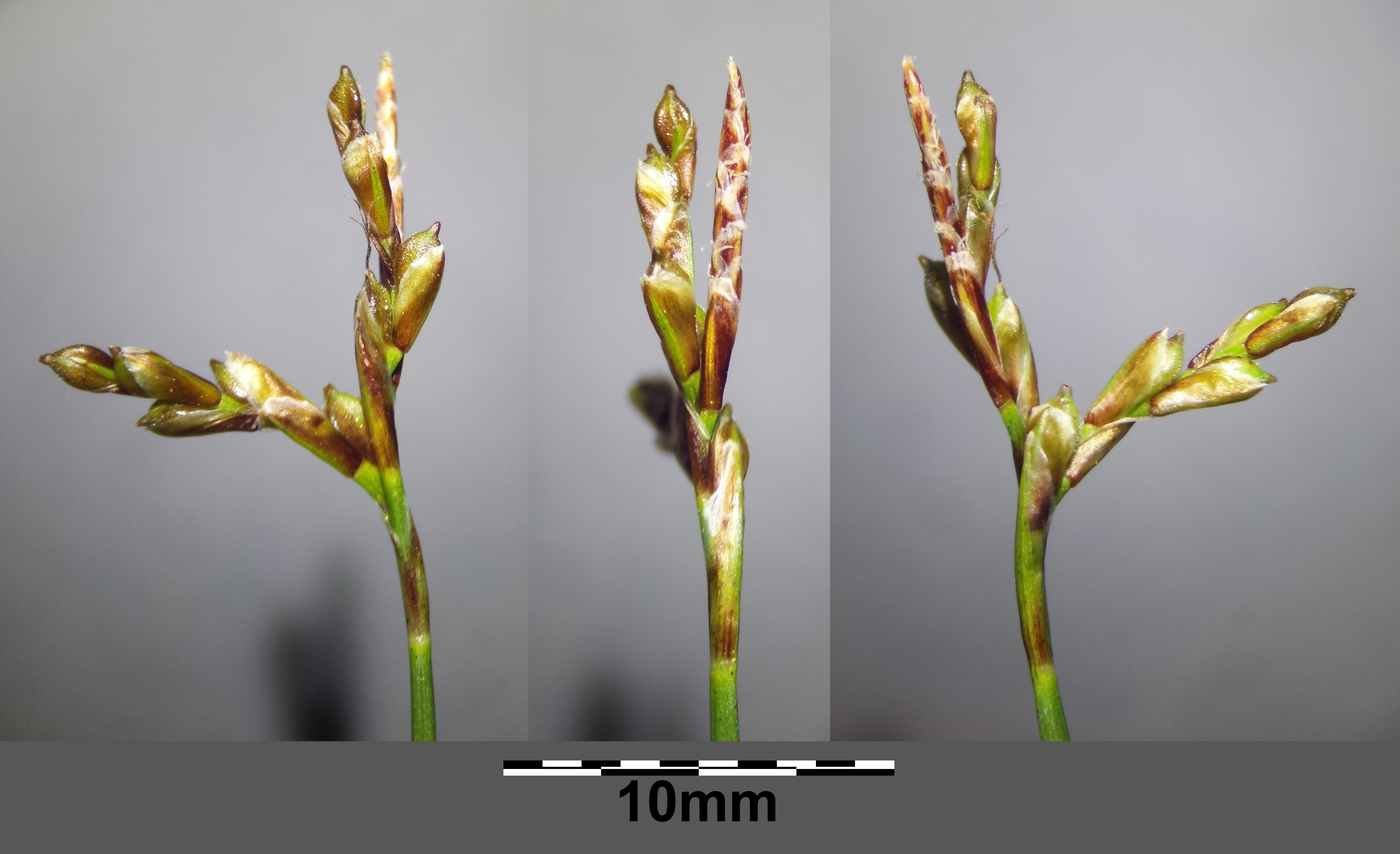 Inflorescence Taxonym: Carex ornithopoda subsp. ornithopoda ss Fischer et al. EfÖLS 2008 ISBN 978-3-85474-187-9 Location: Kalte Stube near Puch, district Hollabrunn, Lower Austria - ca. 350 m a.s.l. Habitat: semi-dry grassland